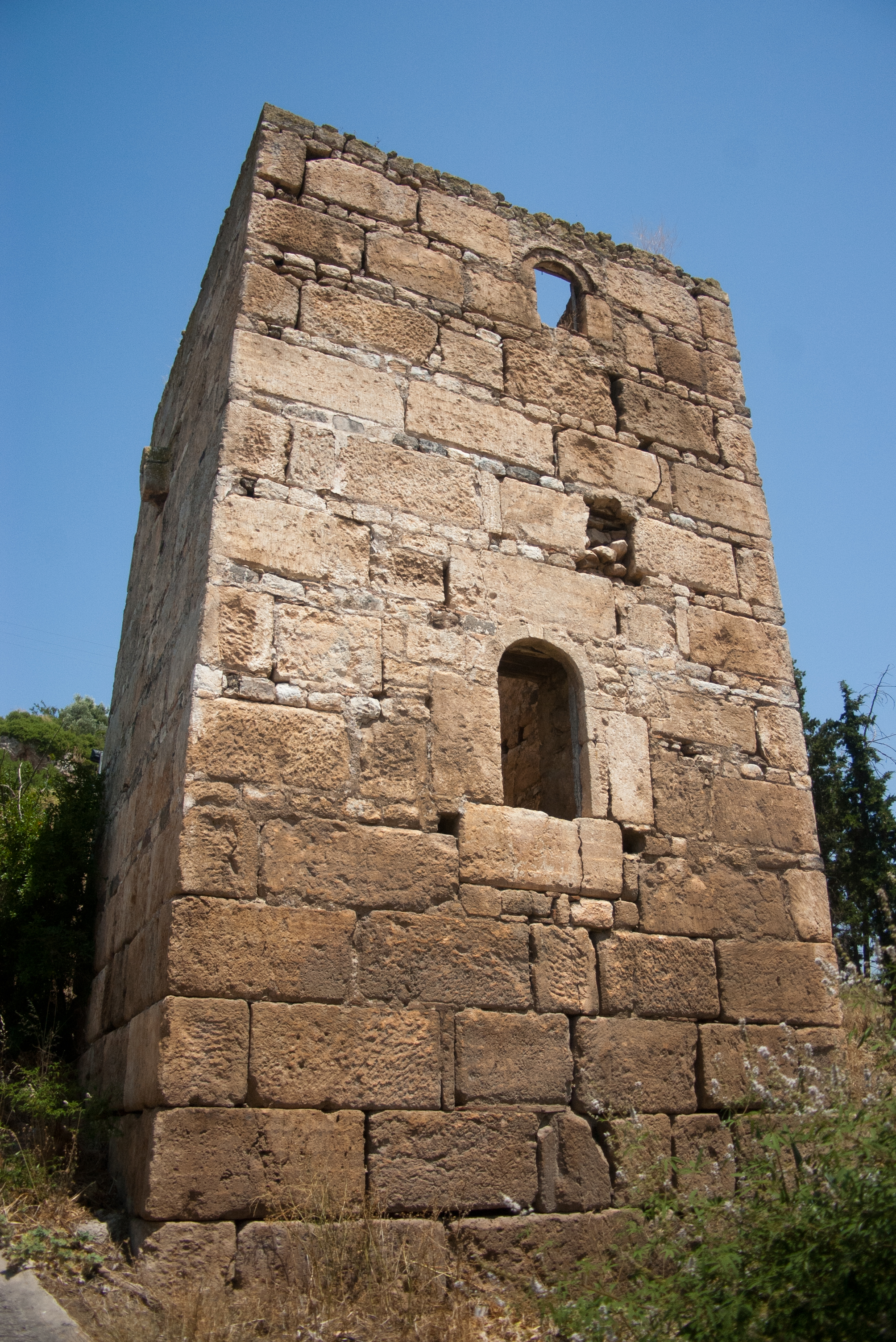 Hellenistic tower with later additions in the village of Achinos, ancient Echinos, Central Greece.